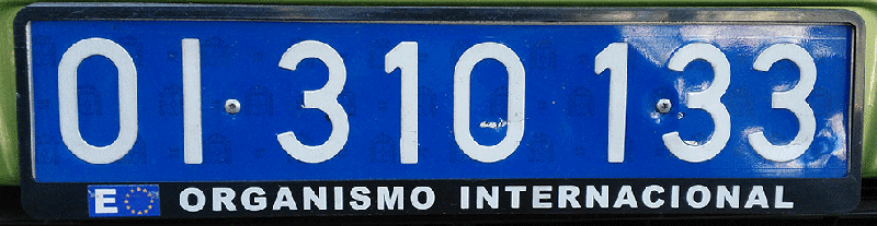 Spanish registration plate for International Agency.